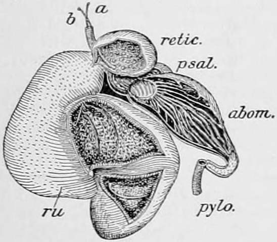 Diagram of the stomach of a ruminant, an animal group of the suborder Artiodactyla